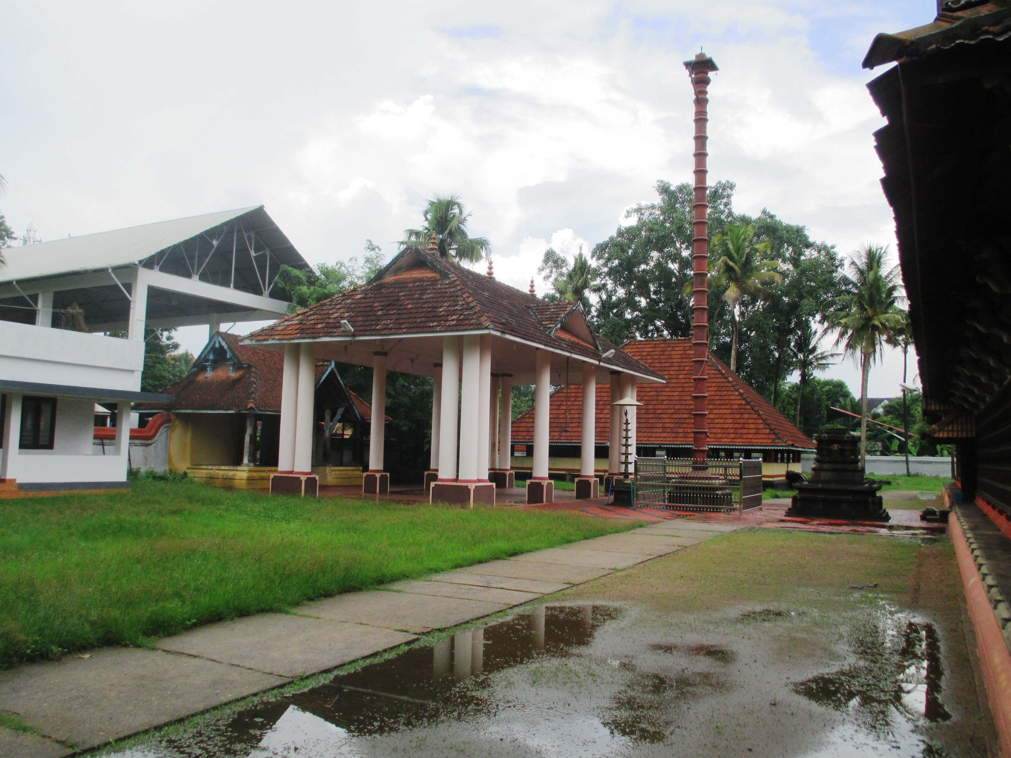 Thirumoozhikulam Temple